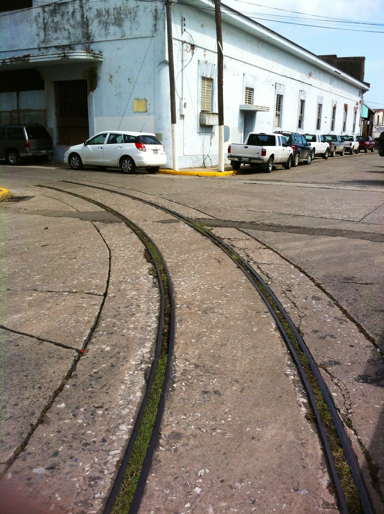 Old Ponce Tramway tracks with which Ponce Railway & Light Co. (PR&L) shared track in the port area, turning from Hostos Avenue (formerly Calle Mayor) to Bonaire Street (formerly Calle Comercio) in Playa, Ponce, Puerto Rico